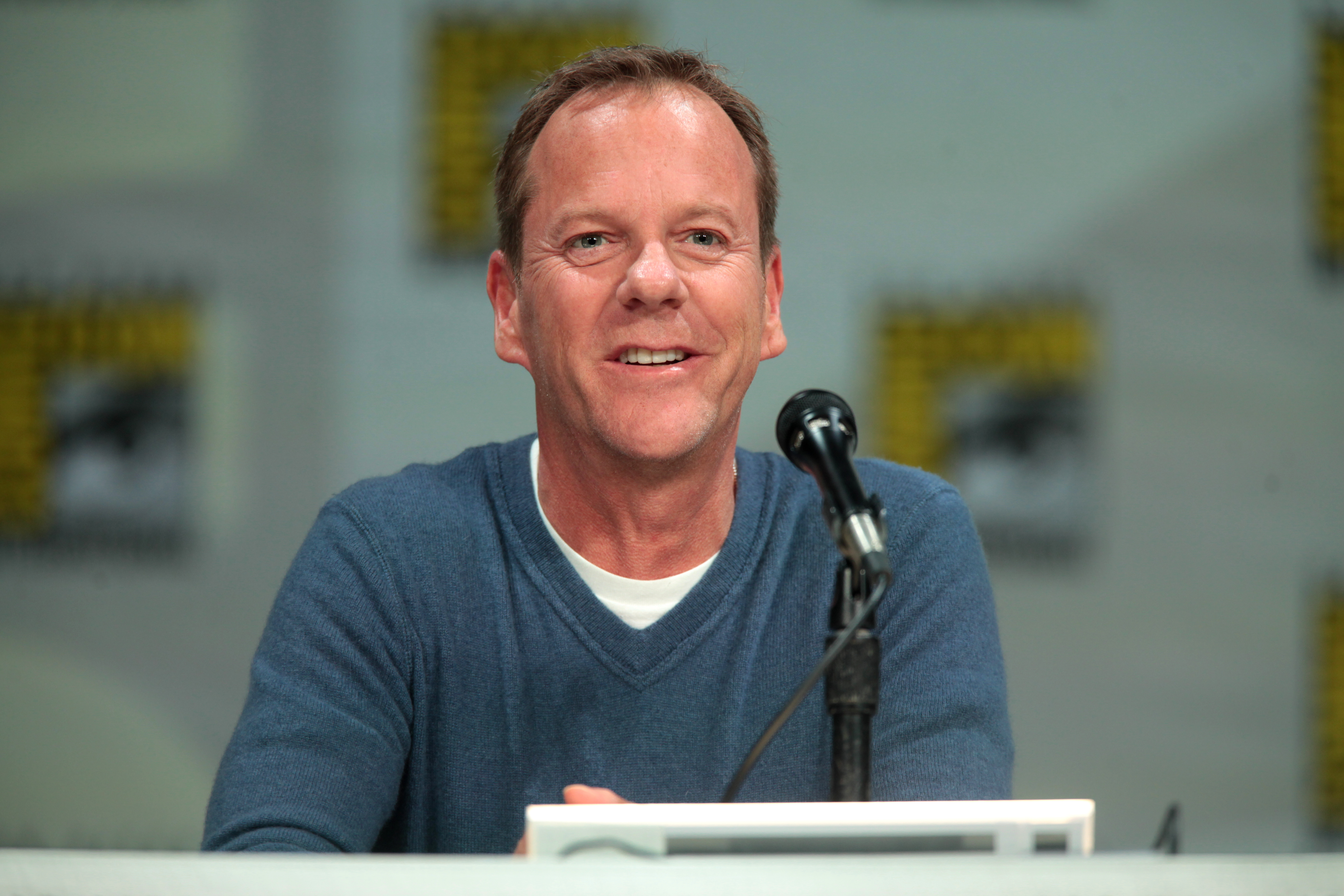 Kiefer Sutherland speaking at the 2014 San Diego Comic Con International, for "24: Live Another Day", at the San Diego Convention Center in San Diego, California.